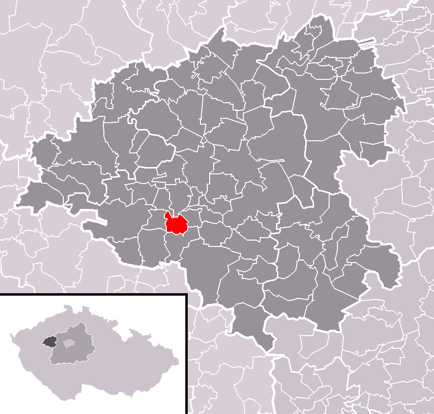 Location of Krakov municipality within Rakovník District and (identical) administrative area of Rakovník as a Municipality with Extended Competence.